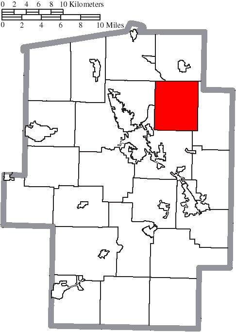 Map of the municipal and township boundaries of Tuscarawas County, Ohio, United States, as of the 2000 census, with the location of Fairfield Township highlighted. Township borders are shown only in unincorporated areas in order to differentiate incorporated and unincorporated areas more clearly.